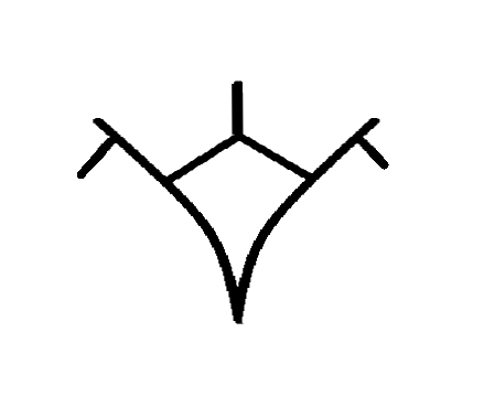 Source: International Turkic Academy, (2015), TÜRK BENGÜ TAŞI: Şivеet-Ulаan Damgalı Anıtı, p. 41 (in Turkish) can be seen here